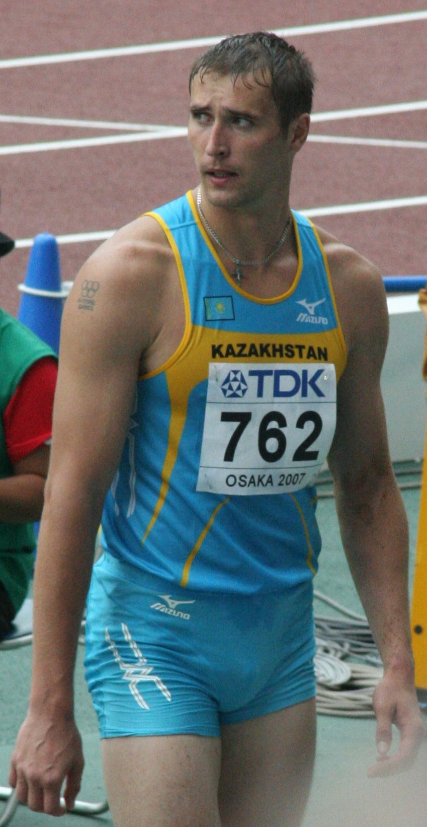 World Athletics Championships 2007 in Osaka - Decathlete Dmitriy Karpov from Kazakhstan during the long jump part of the decathlon